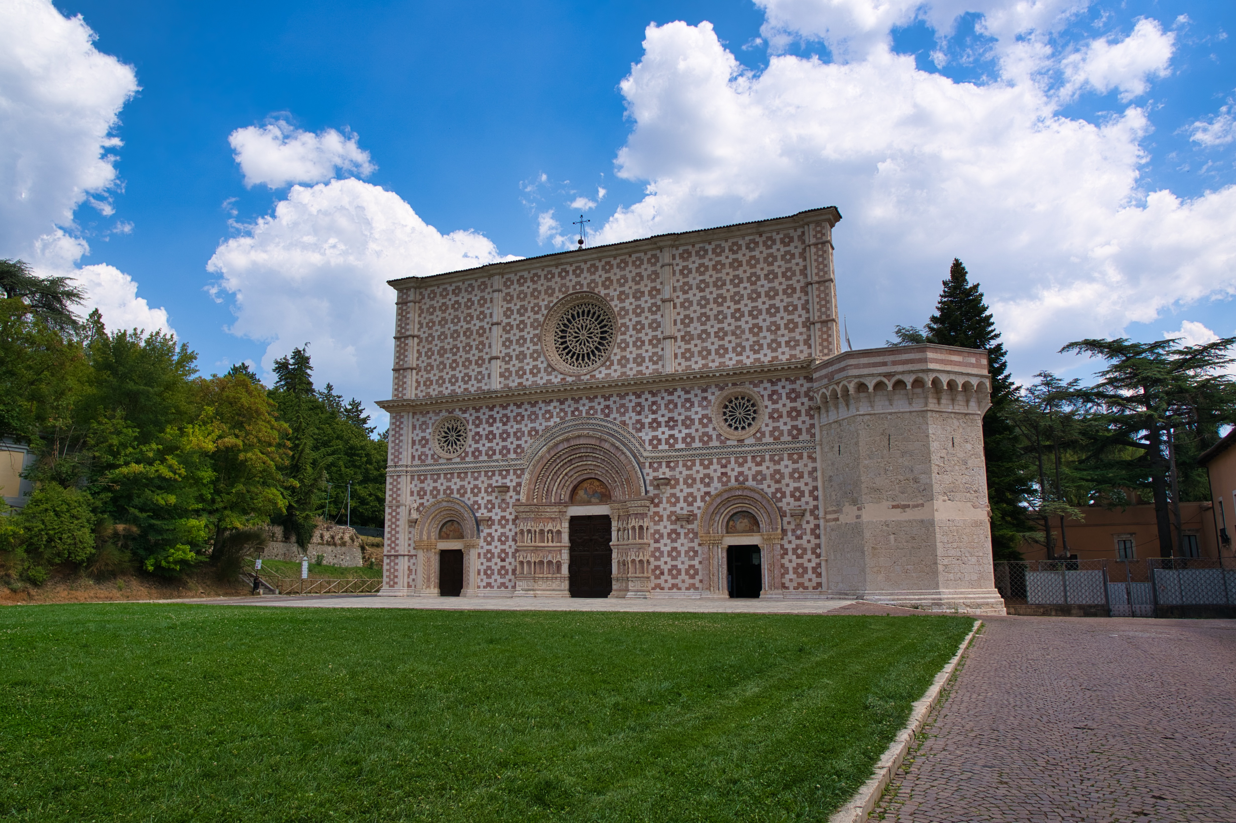 Santa Maria di Collemaggio in 2020, after completion of the restoration work.